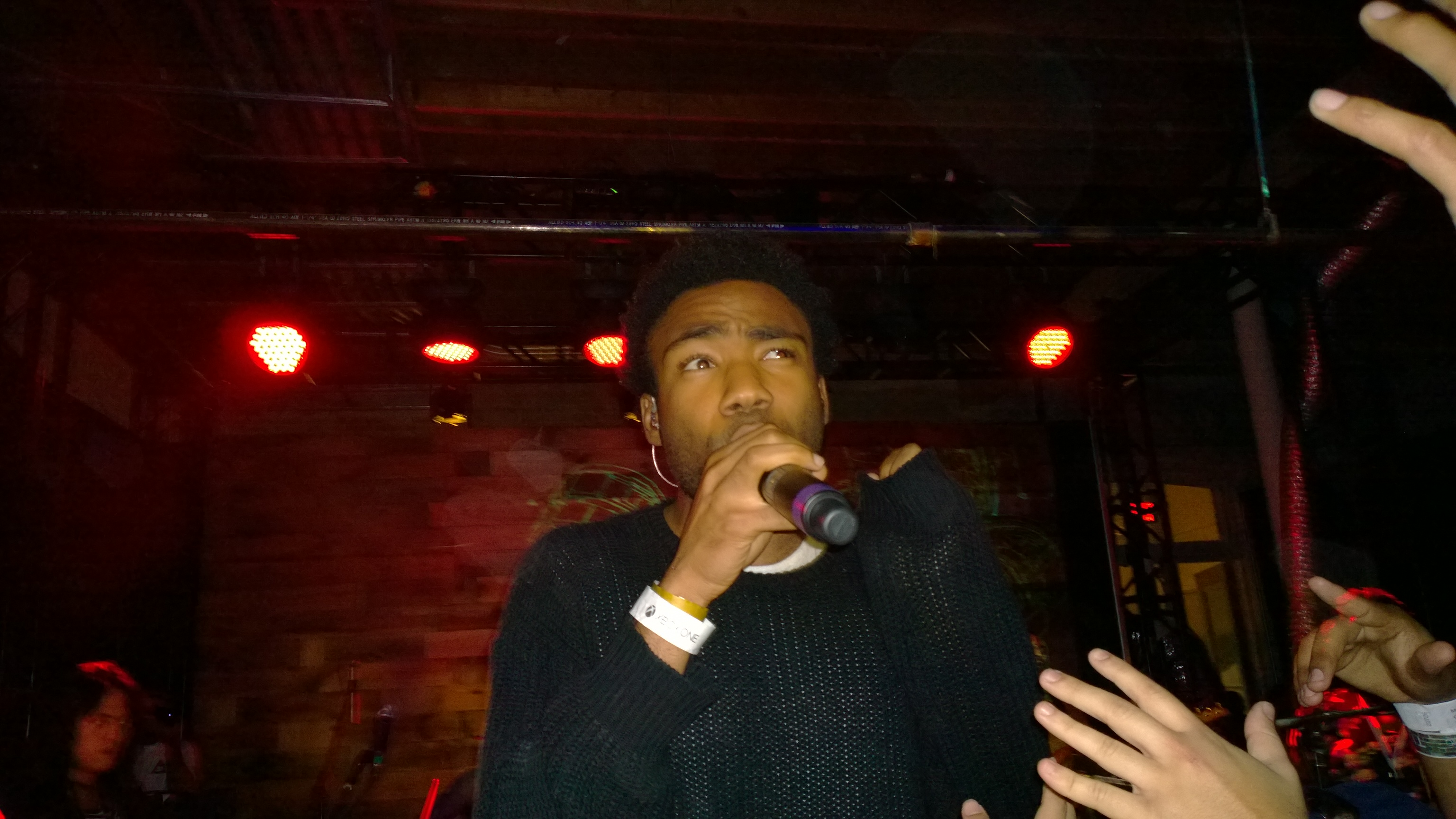 Taken at South by Southwest 2014.